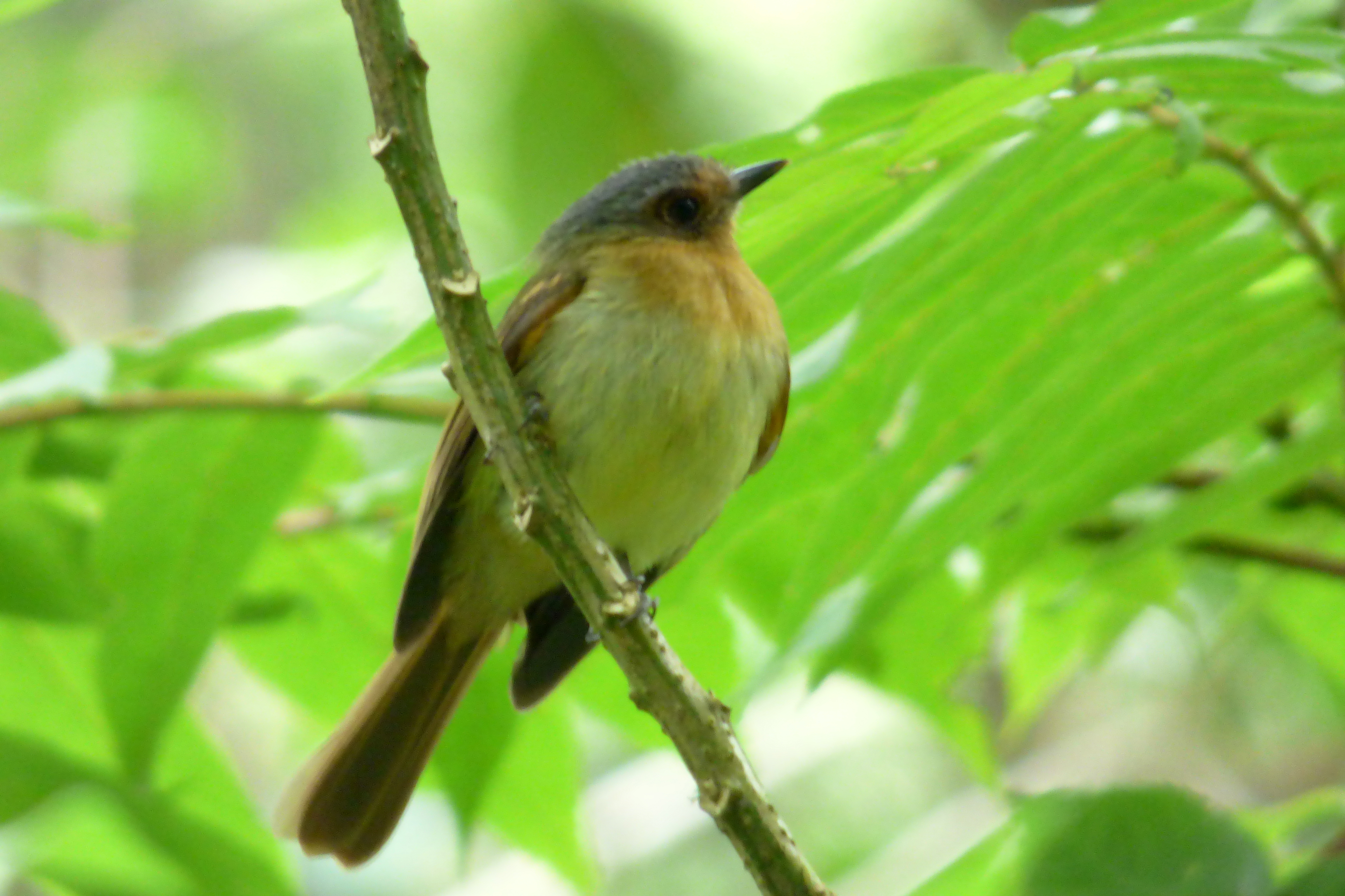 Myiophobus pulcher (Atrapamoscas musguero)